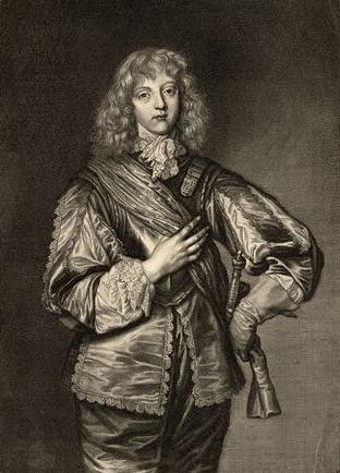 Philip Herbert, 5th Earl of Pembroke (1621-1669)